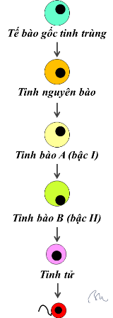 From "spermatogonial stem cell" to "Sperm"